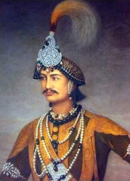 Jang Bahadur Kunwar Rana (1817–1877), Prime Minister of Nepal